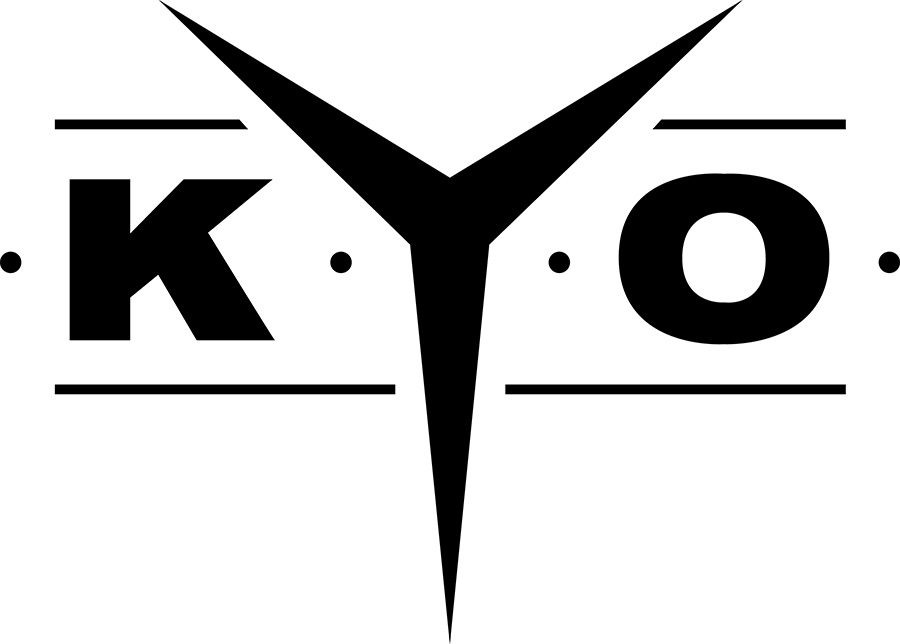 KYO LOGO